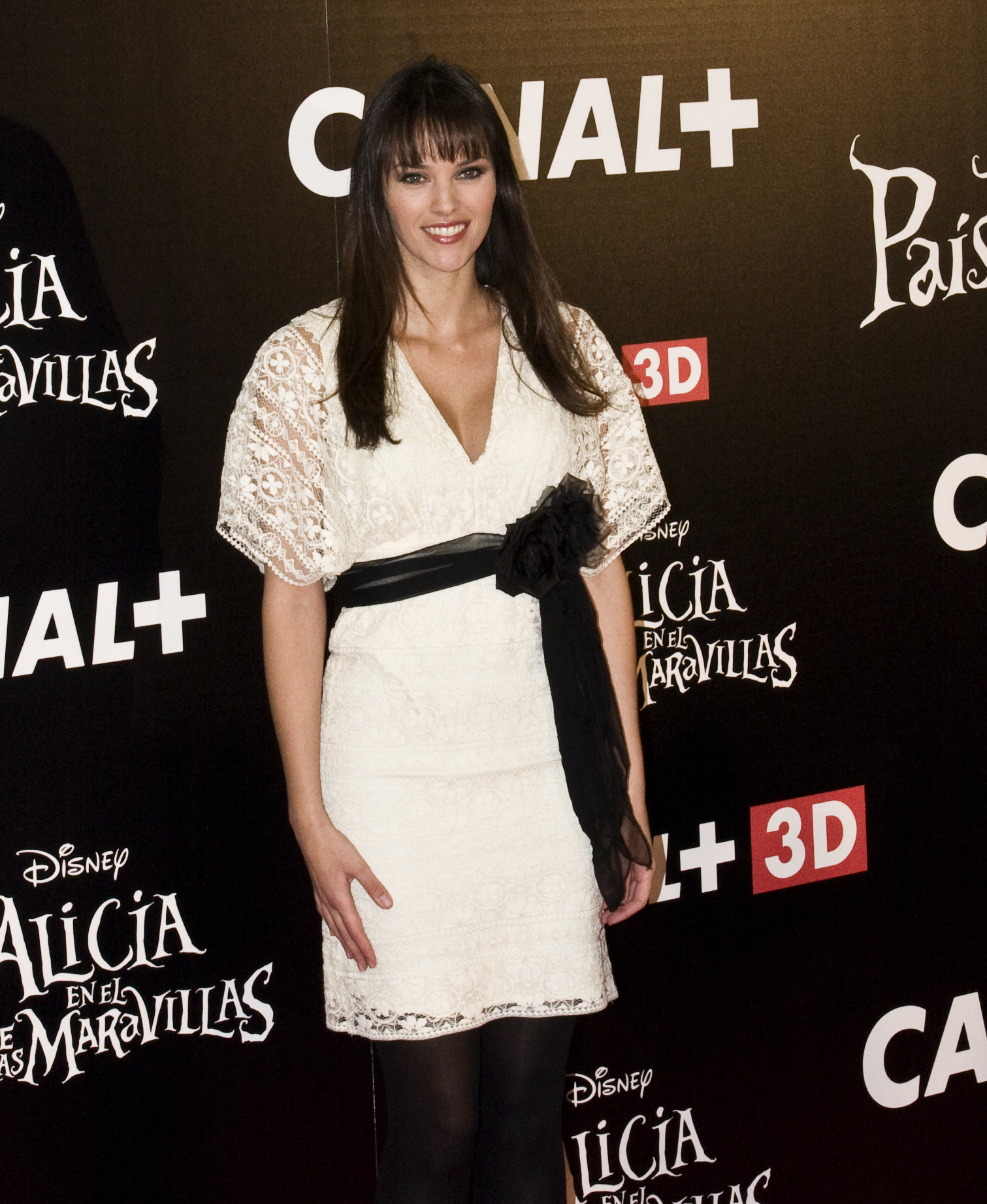 Helen Lindes Spanish model at the photocall of Alice in Wonderland in 2010.